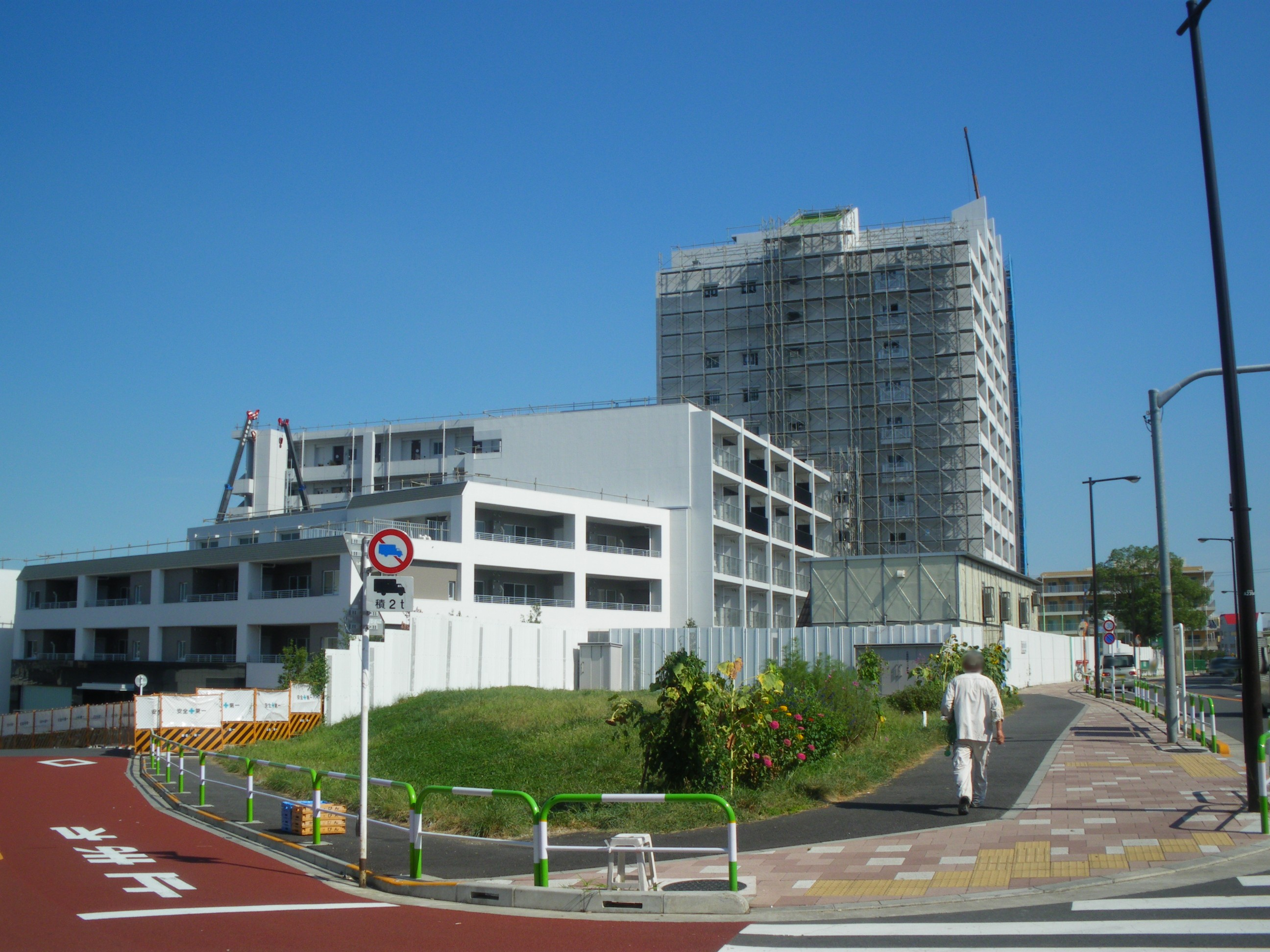 Former site of Tokyo University of Foreign Studies(Nishigahara,kita,Tokyo)